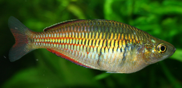 Author: Eileen Kortright (Roan Art) Subject: Melanotaenia boesemani (Boeseman's Rainbowfish), female